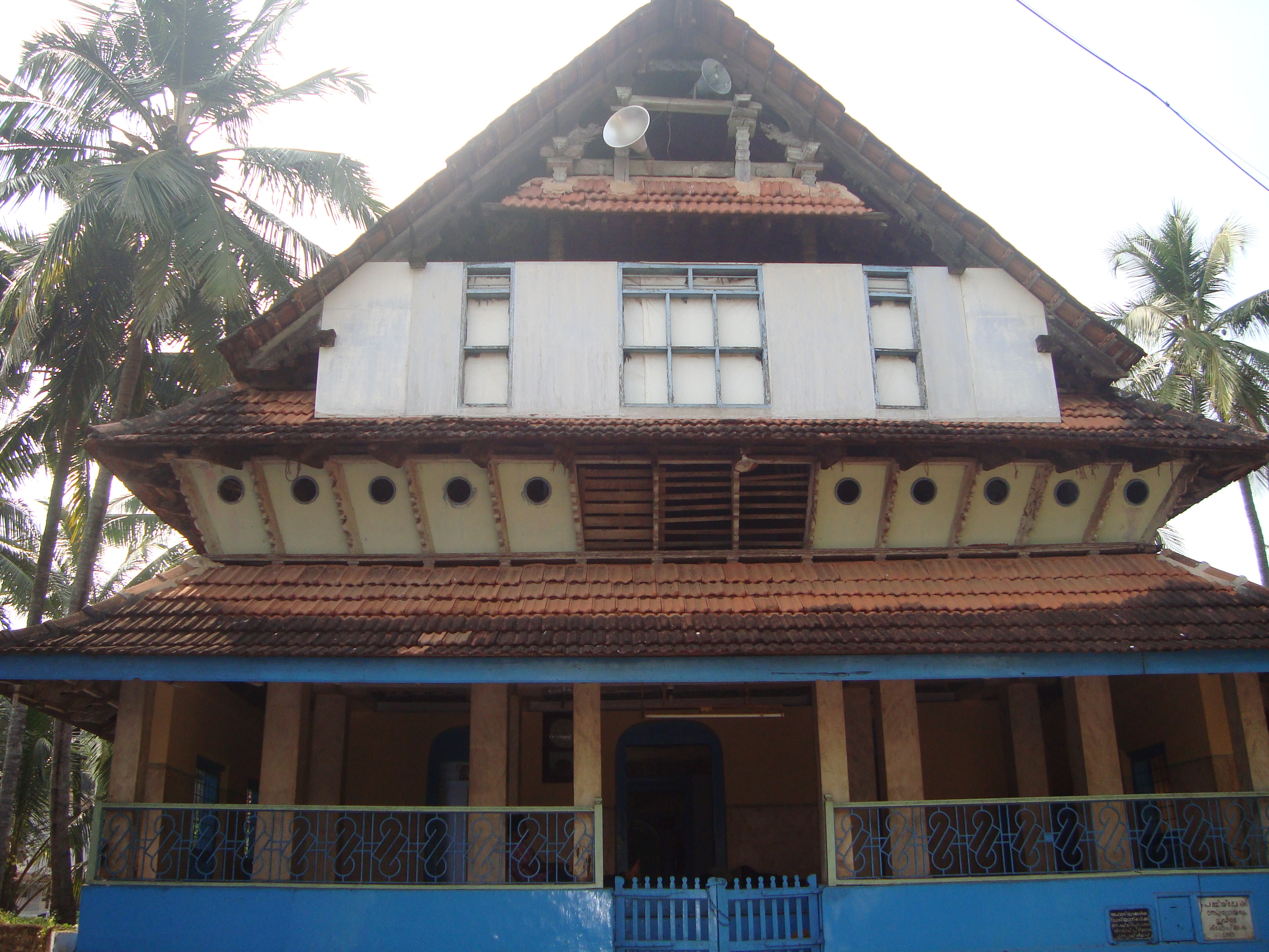 Muchundi Mosque (Muchundipalli), Calicut (India)